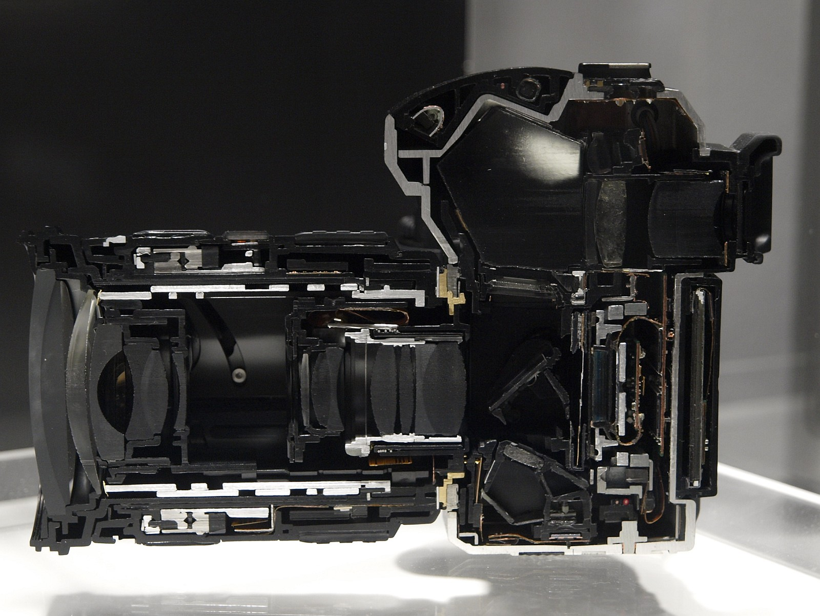 Olympus E-3 DSLR Camera with Zuiko Digital ED 12-60mm F2.8-4.0 SWD. Cut model at PIE2008 in Tokyo.